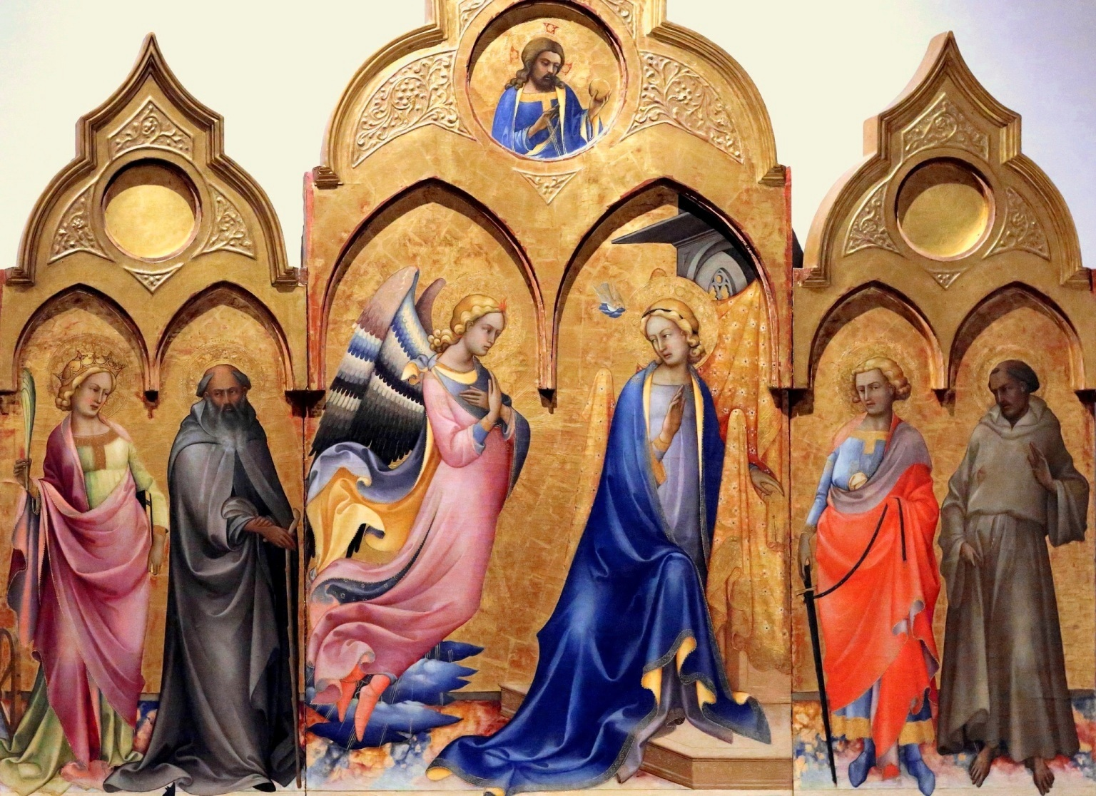 Lorenzo Monaco, Annunciation triptych, 1409, Uffizi, Florence